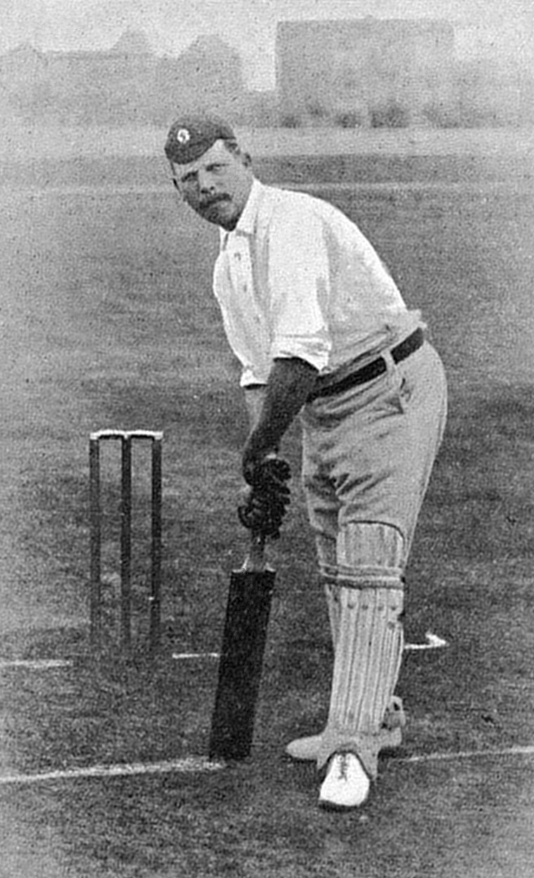 Scan of cricketer Wilfred Flowers